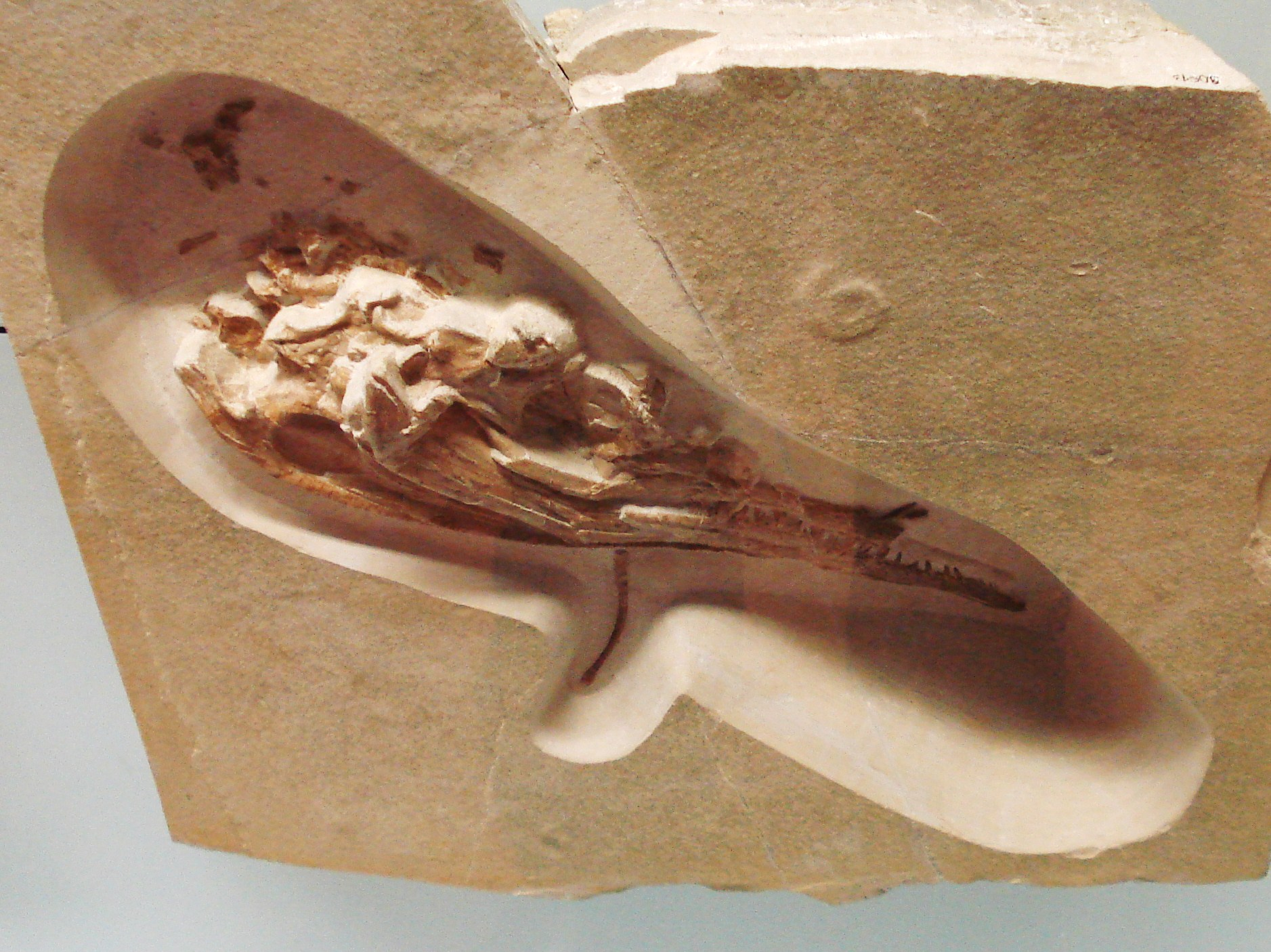 fossil of geosaurus